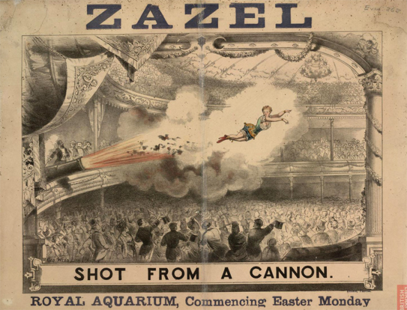 Rossa Matilda Richter, also known as Zazel, the first human cannonball performer (when she was 14, in 1887).